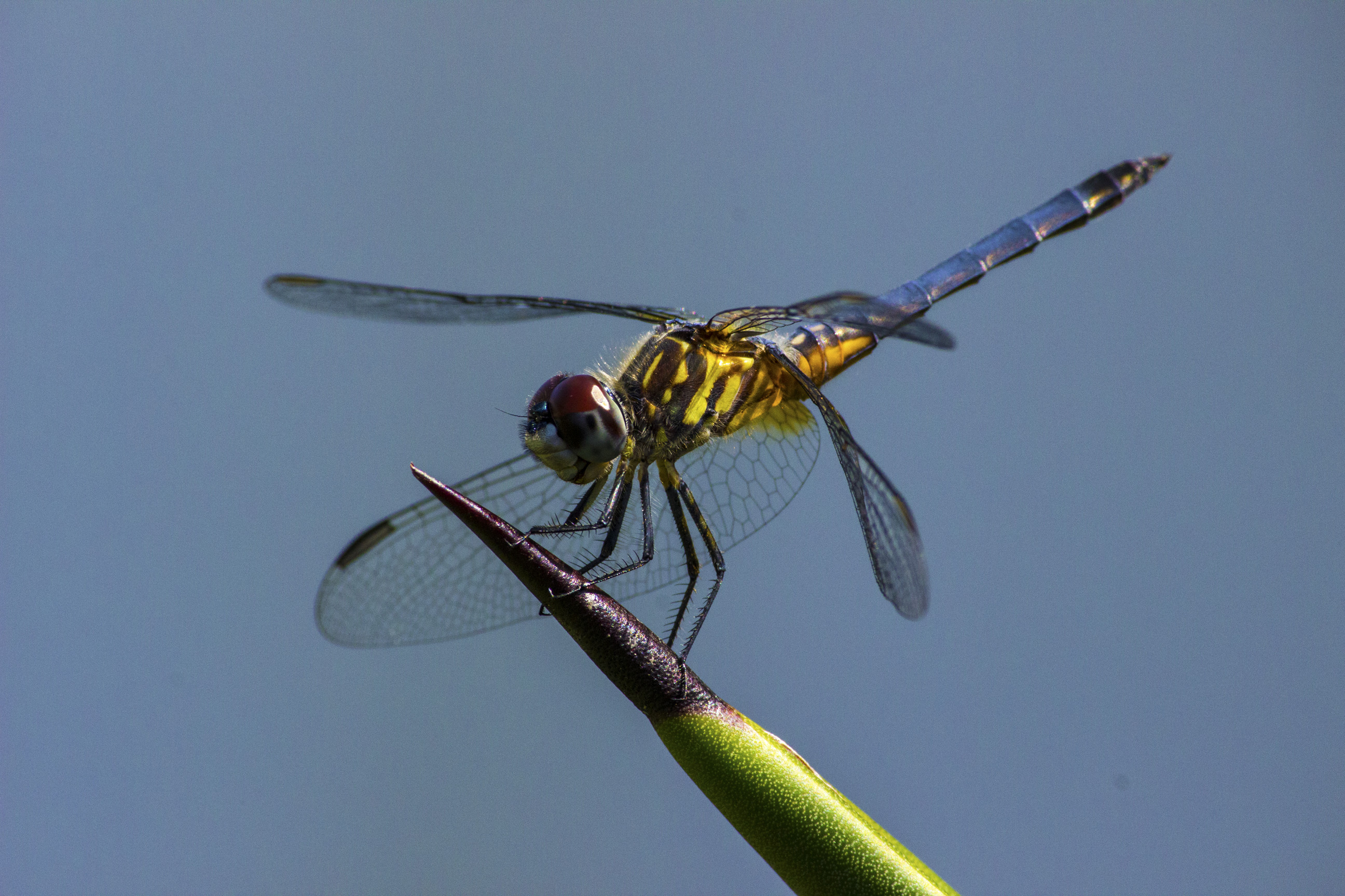 An image of an "Ornate Pennant" dragonfly (taken in Florida).